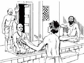 Ramdas-vasudev swami